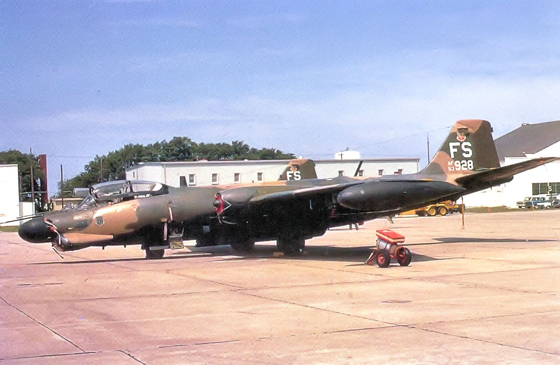 8th Bombardment Squadron Martin B-57B-MA 53-928 1974. Photo taken at Forbes AFB, Kansas shortly after aircraft was returned to the United States and assigned to the 190th Tactical Reconnaissance Group, Kansas Air National Guard. Was programmed on being converted to a B-57G but instead was sent to AMARC instead for scrapping.